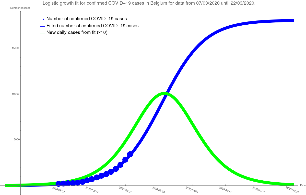 Logistic growth fit for confirmed COVID-19 cases in Belgium for data from 07/03/2020 until 22/03/2020.